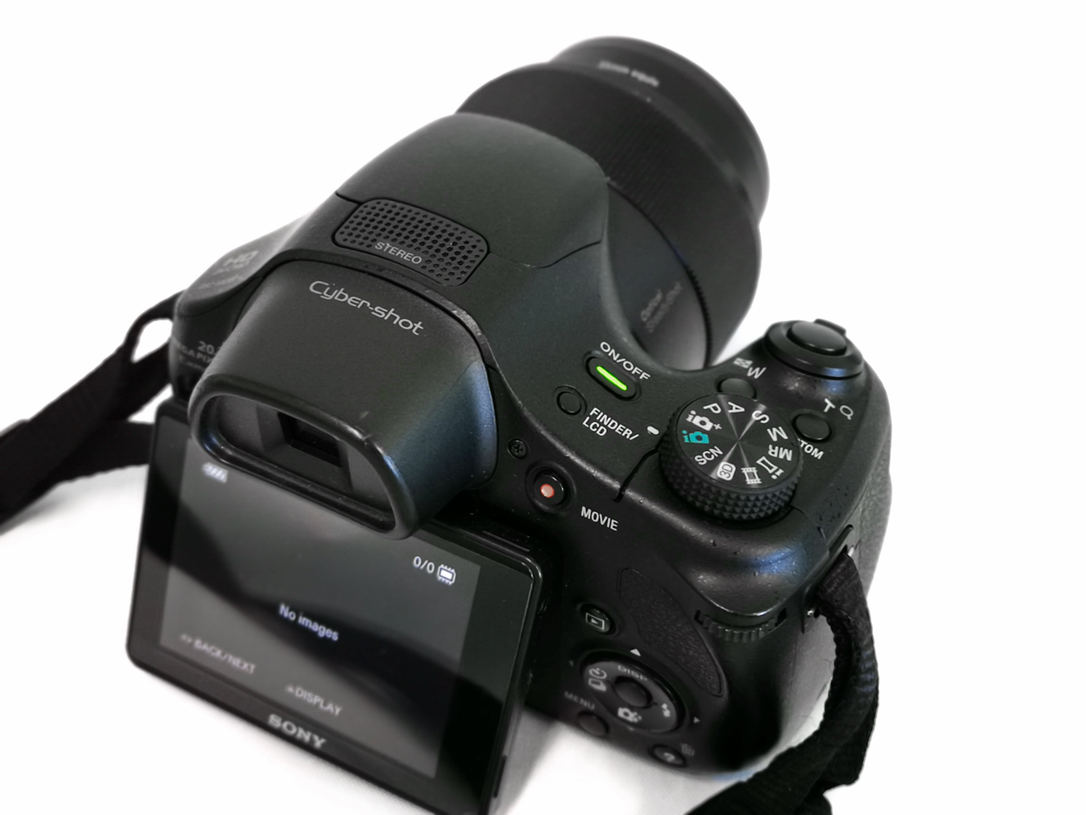 Sony Cyber-shot DSC-HX300 digital camera.